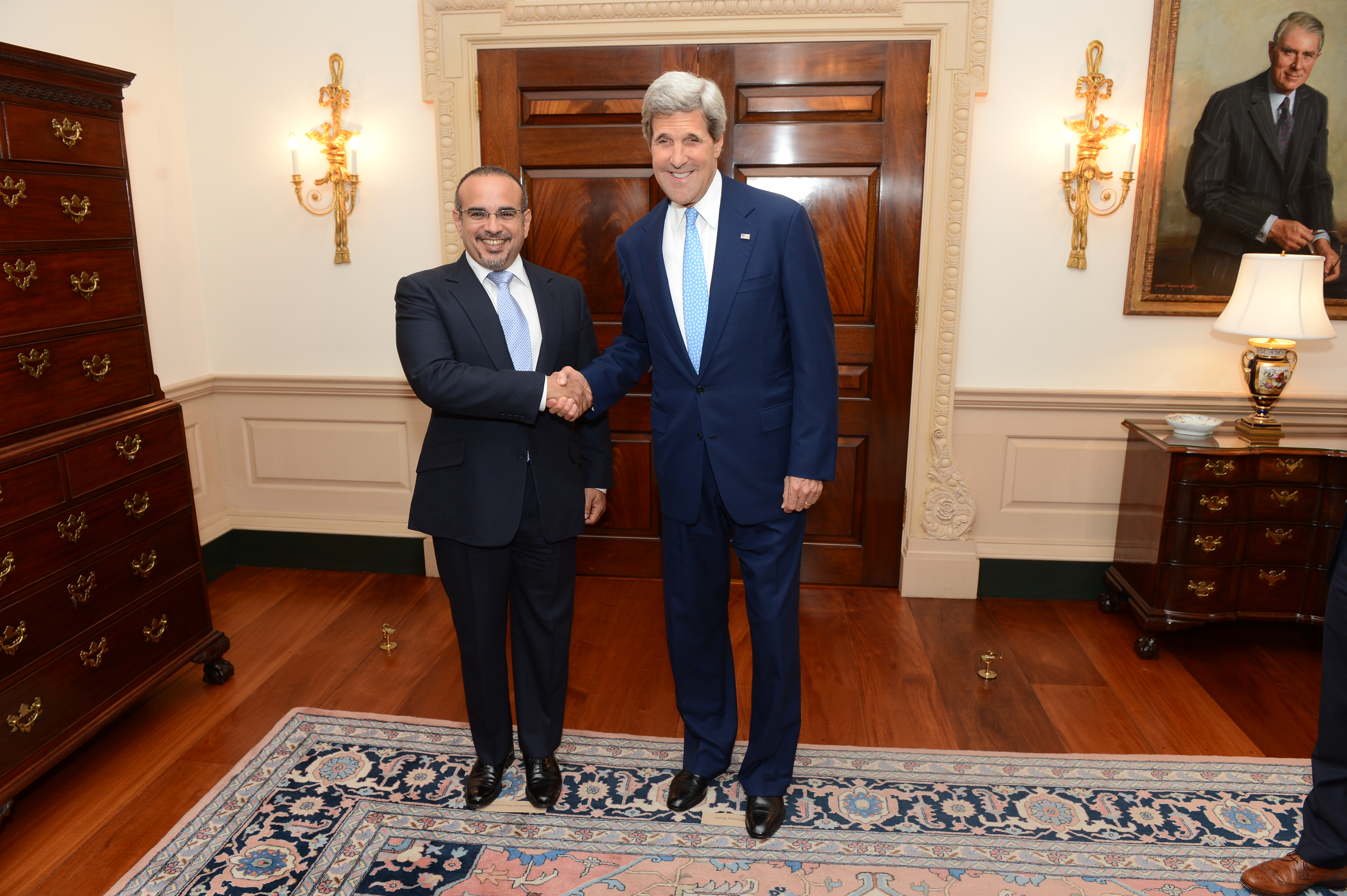 U.S. Secretary of State John Kerry shakes hands with Bahraini Crown Prince Salman bin Hamad Al-Khalifa before their bilateral meeting at the U.S. Department of State in Washington, D.C., on June 6, 2013. [State Department photo/ Public Domain]